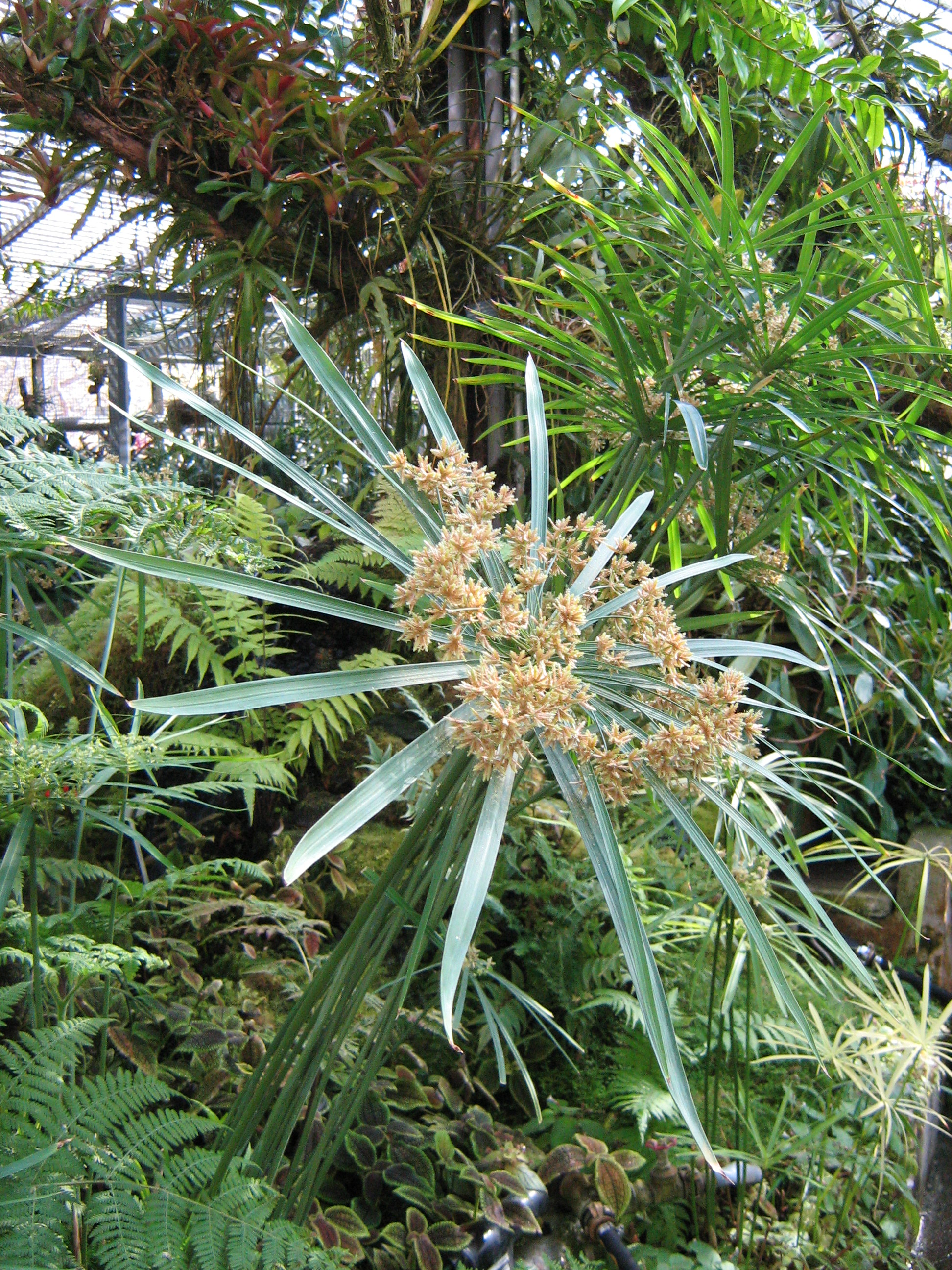 Cyperus alternifolius in the botanic garden of Berne